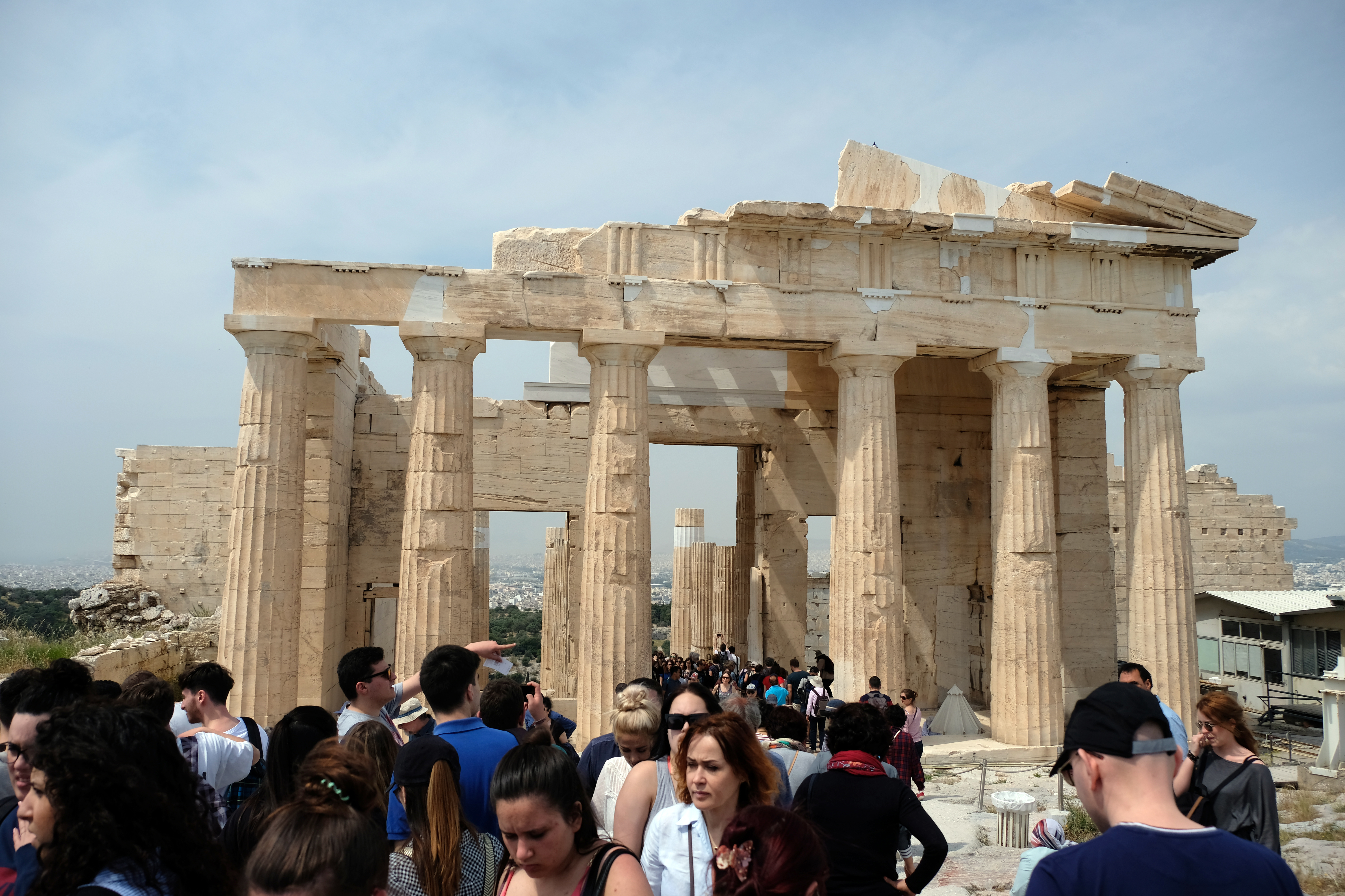 The Propylaea in 2018